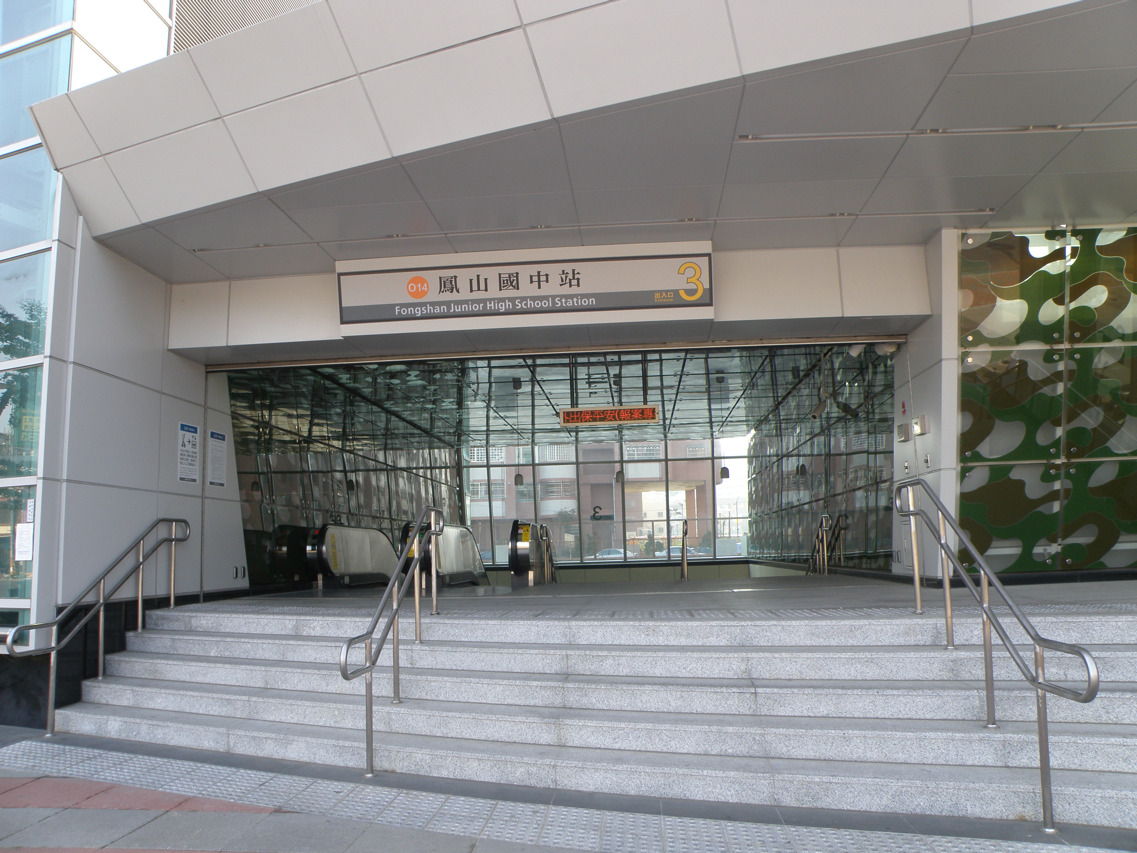 Exit No.3 of Fongshan Junior High School Station, Kaohsiung Mass Rapid Transit.